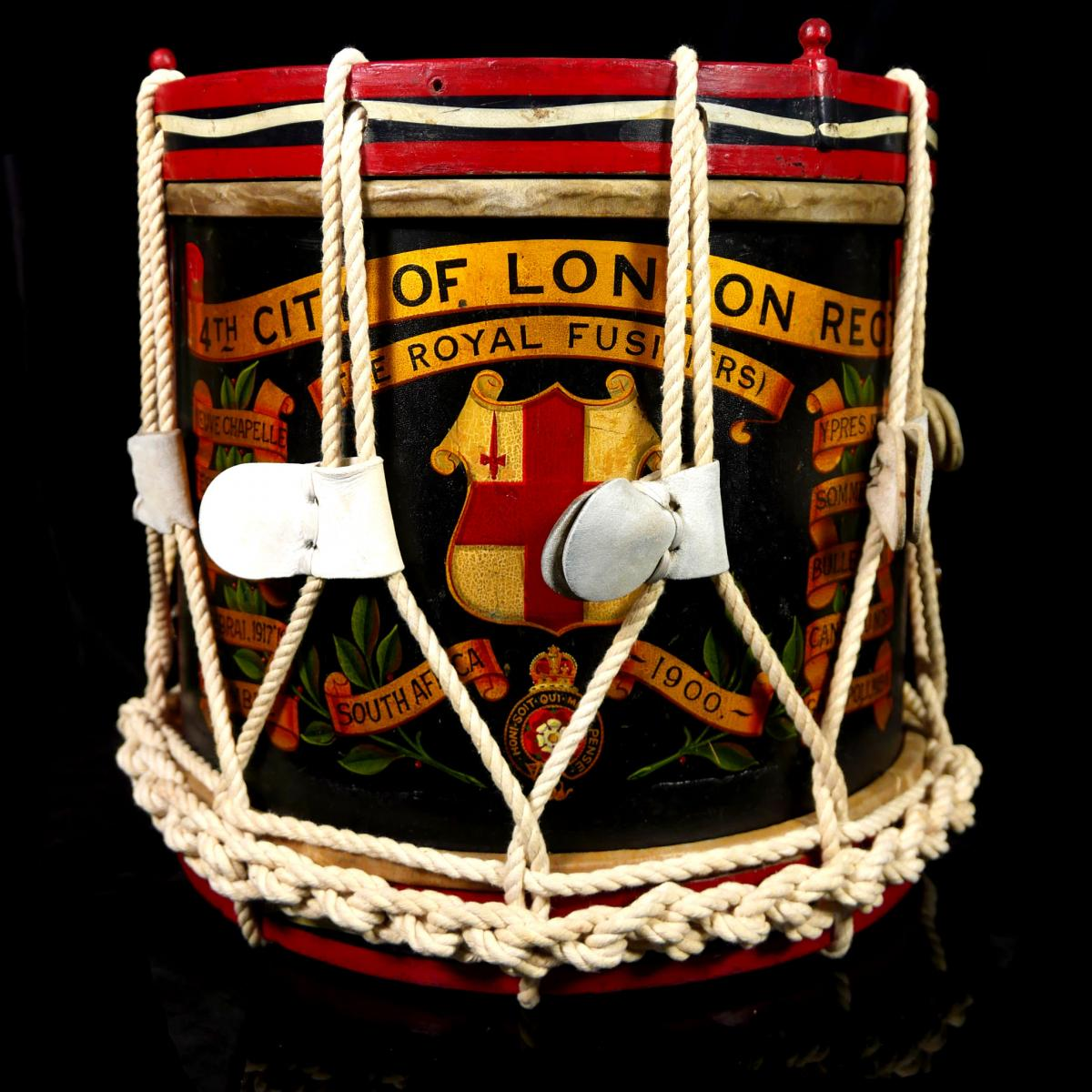 4th City of London Regiment (Royal Fusiliers) – King George V Side Drum, made and issued in 1919 to mark the granting of new Battle Honours won during the First World War. Emblazoned by Henry Potter & Co., 36-8 West Street, Charing X Road, London, with the City of London coat of arms, over the Royal Fusiliers’ crowned Tudor rose within the Garter, flanked by Battle Honours of the First World War (brass cylinder, wood hoops, leather tab and rope tensioning, height: 36cm (14.25in), diameter 37cm (14.5in))